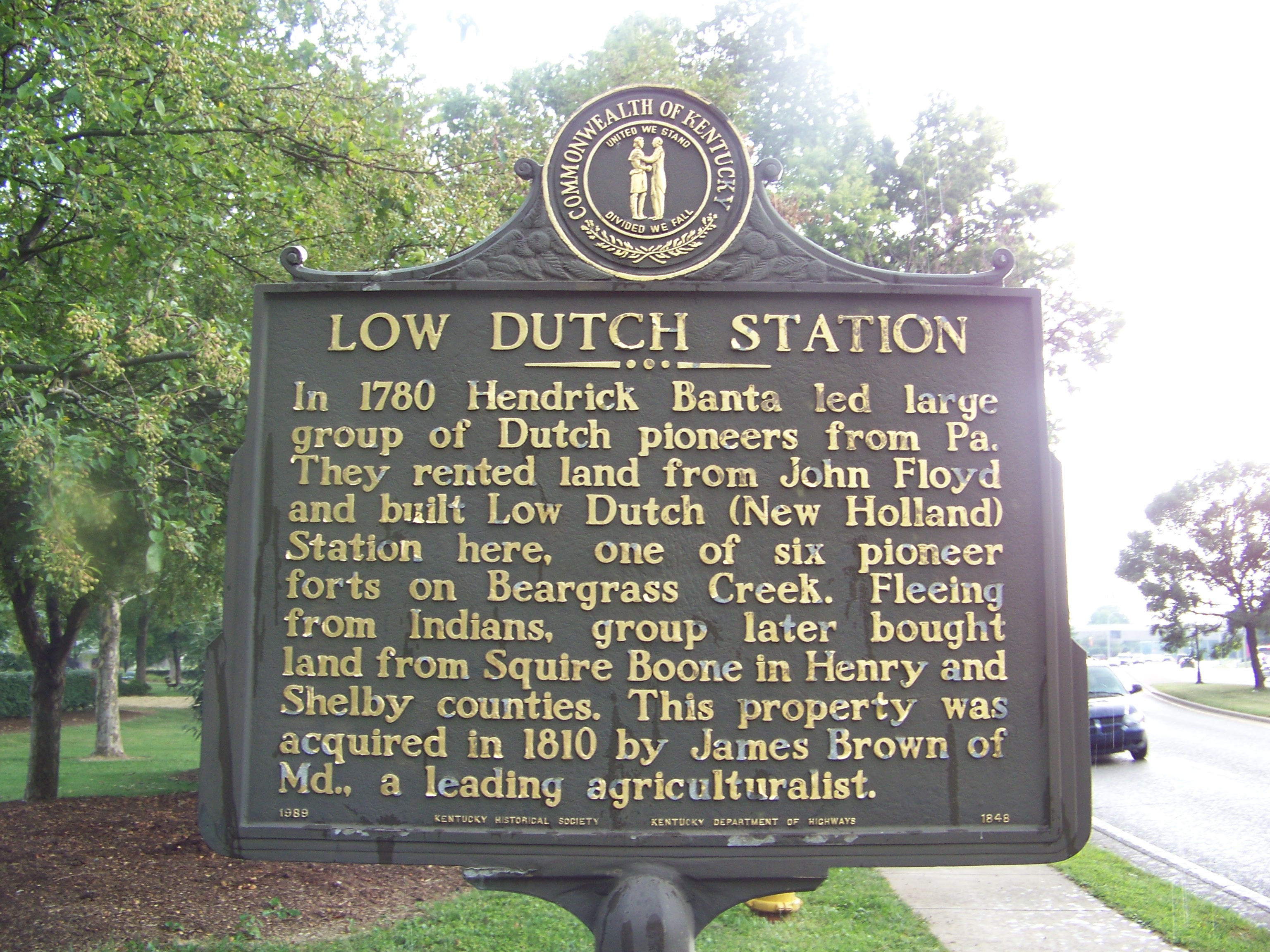 HISTORIC MARKER TAKEN BY SELF